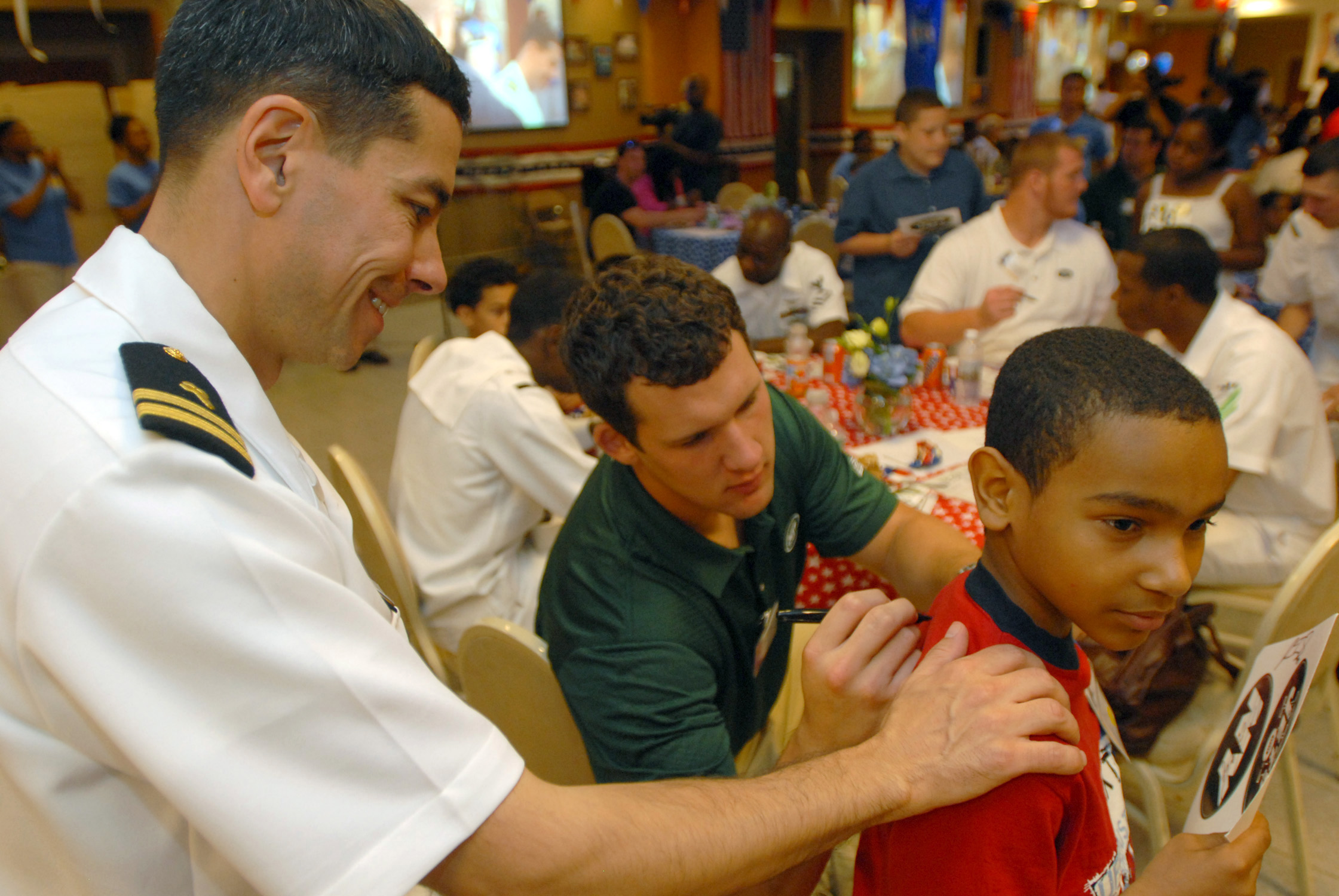 NEW YORK (May 26, 2007) - U.S. Navy Chaplain Lt. Wayne Haddad assigned to Naval Amphibious Assault Ship USS Wasp (LHD 1) steadies the shoulder of Javon Rodriguez of Queens, NY, as Jason Trusnik, NY Jets outside linebacker autographs his shirt. Sailors are in New York City for Fleet Week New York City 2007, along with members from the National Football League (NFL) New York Jets, participated in a community relations (COMREL) event called "Project Hope", May 26, at Times Square Church in Manhattan. "Project Hope" is a church sponsored organization that provides resources, counseling and food to inner-city youth and their families. The 20th annual Fleet Week New York is the opportunity for New Yorkers to meet Sailors, Marines and Coast Guardsmen and thank them for their service. Fleet Week honors the service and sacrifice of all of our Sailors, Marines and Coast Guardsmen, as well as the City of New York, in the Global War on Terror. U.S. Navy Photo by Mass Communication Specialist Petty Officer 1st Class Michael W. Pendergrass (RELEASED)